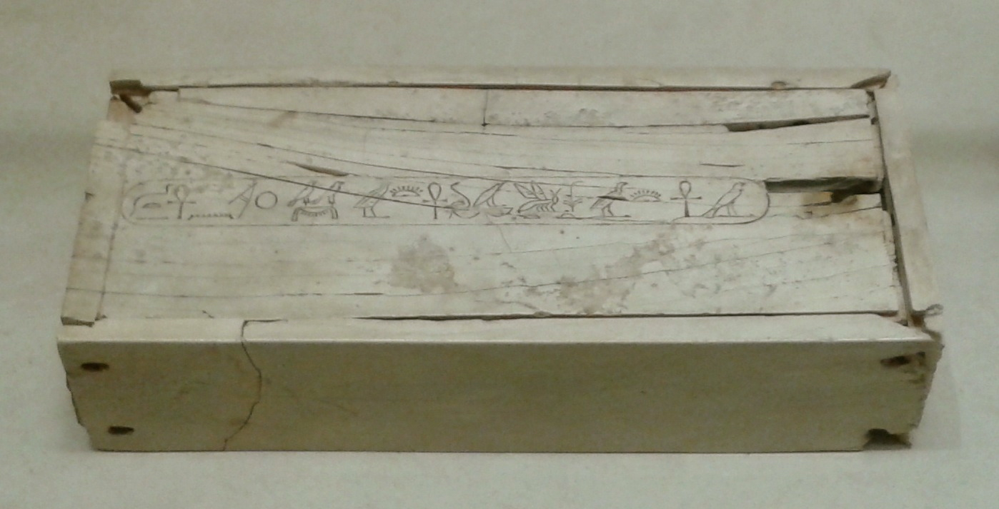 Wooden box bearing the titulary of Merenre I, Musee du Louvre.